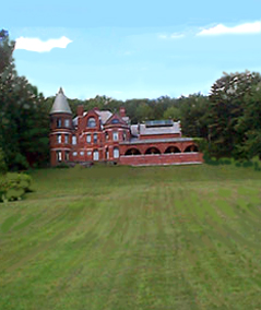 Facade of Wilson Castle, photograph by Amber LeBourveau, used with permission. August 18, 2006.